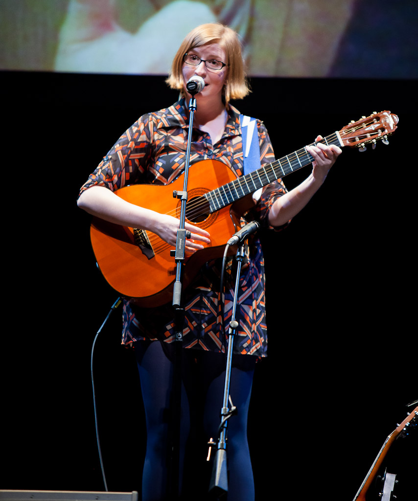 W00tstock 4.0 - The Doubleclicks The Doubleclicks at W00tstock 4.0 in 2012.